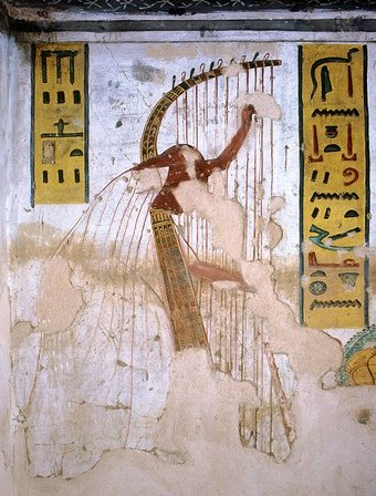 Harper playing [before Onuris-Shu and Ra-Horakhty]. Scene from tomb of Ramses III. (KV11)